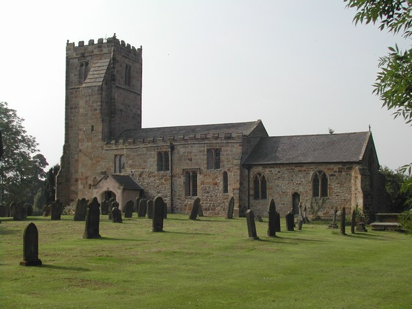 Parish church at Danby Wiske, North Yorkshire, seen from the southeast